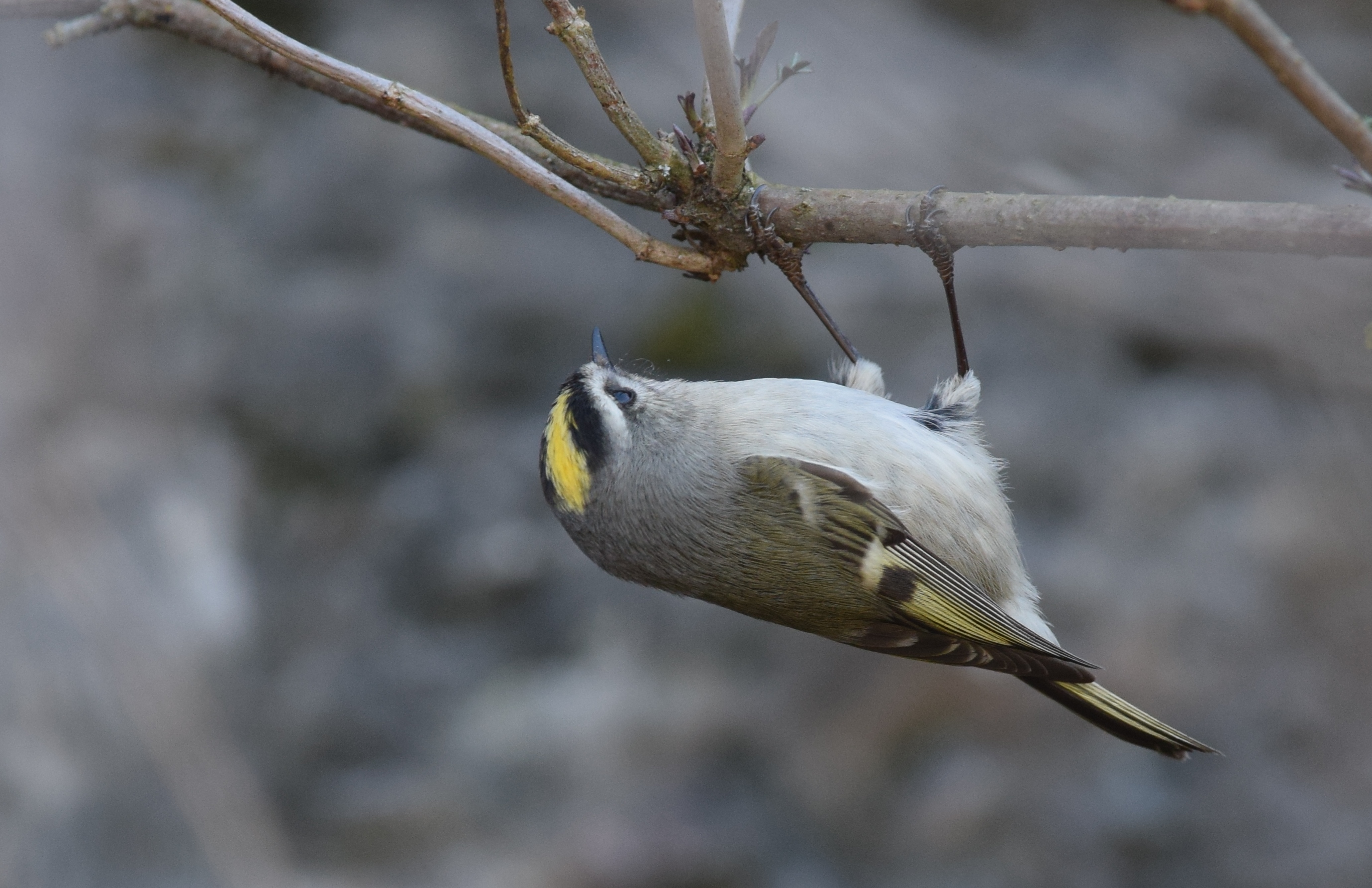 Golden-crowned Kinglet